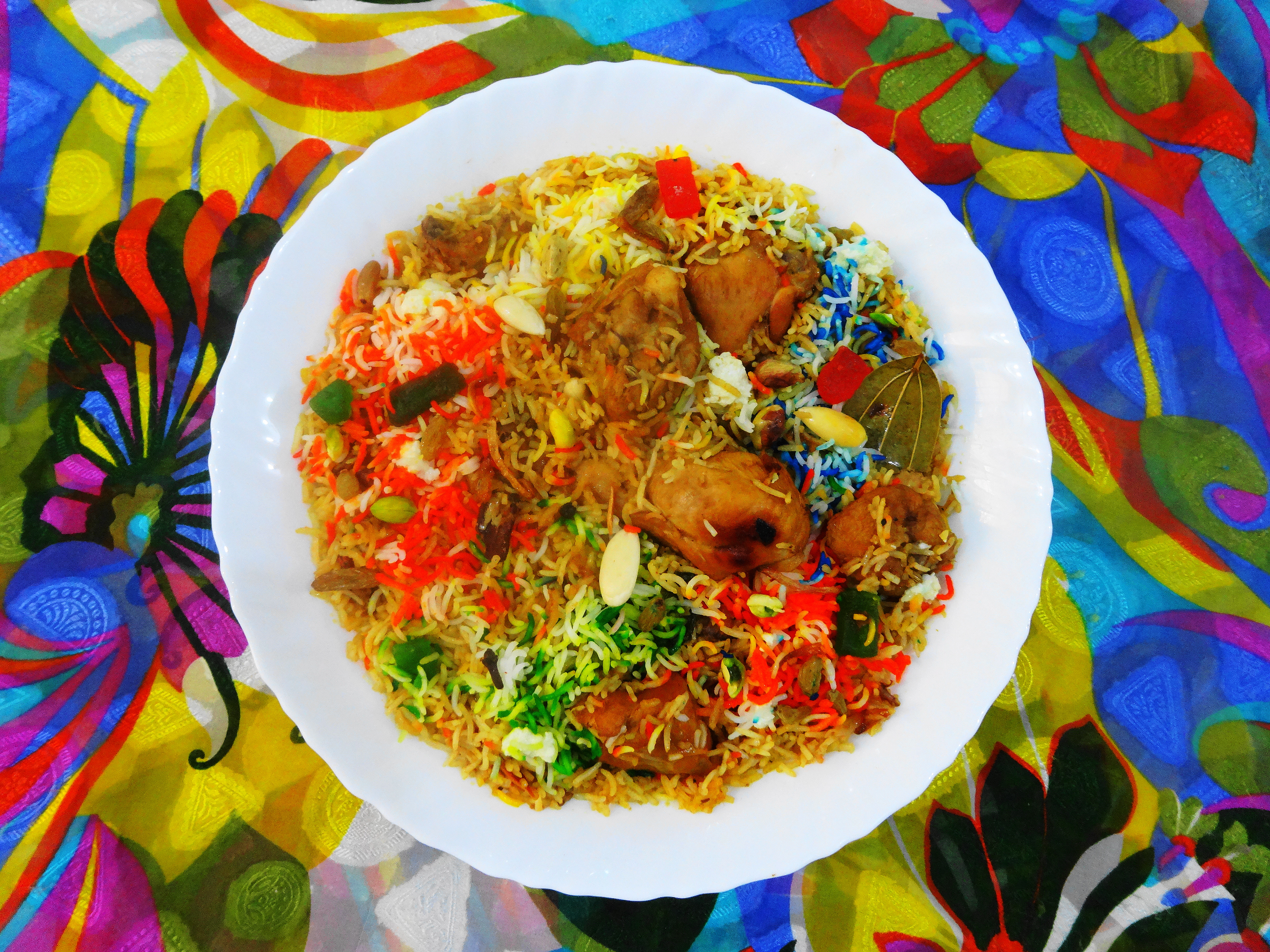 Rainbow Biryani, Sat Rangi Biryani, Coloured Biryani, Seven Colour Biryani, ست رنگی بریانی، قوس و قزع بریانی، رنگیلی بریانی